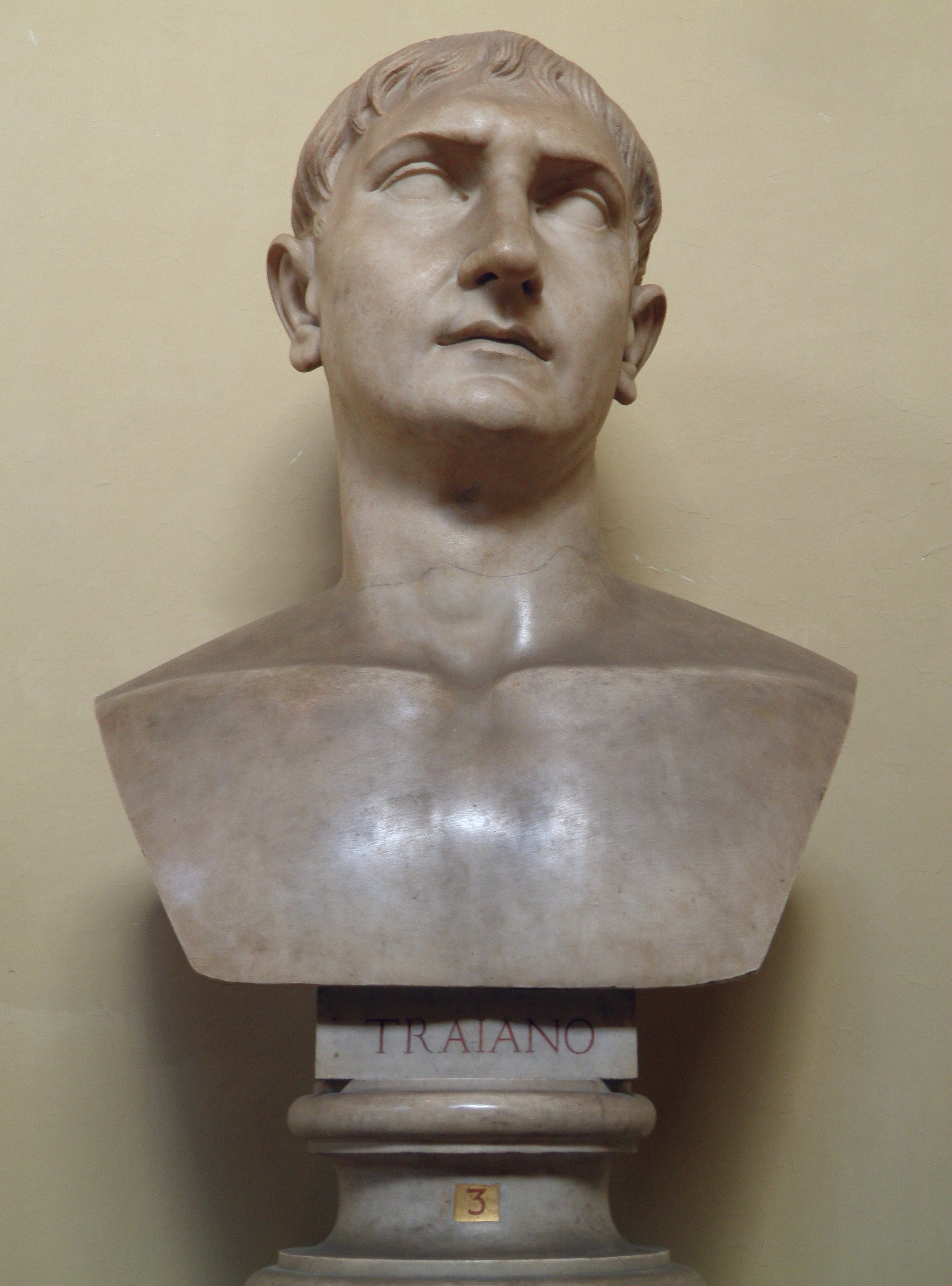 Inv. No. 1931